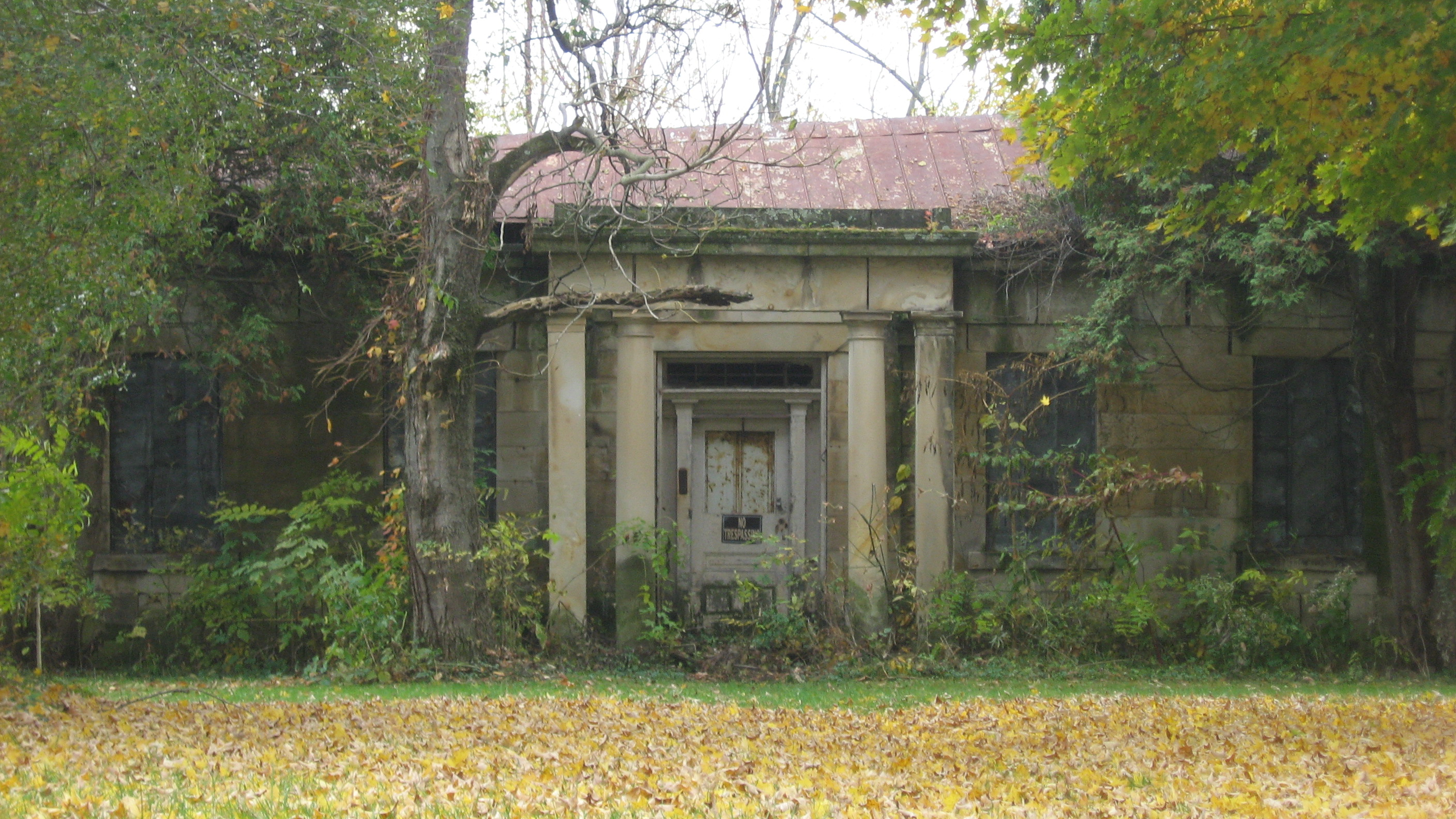 Front of the Jones-Cutler House, located on Bridge Street in Jasper, Ohio, United States. Built in 1830, it is listed on the National Register of Historic Places.